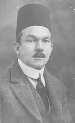 Ali Shamsi was minister of finance and later on education in Egypt. He was also Egypt's first representative to the League of Nations.